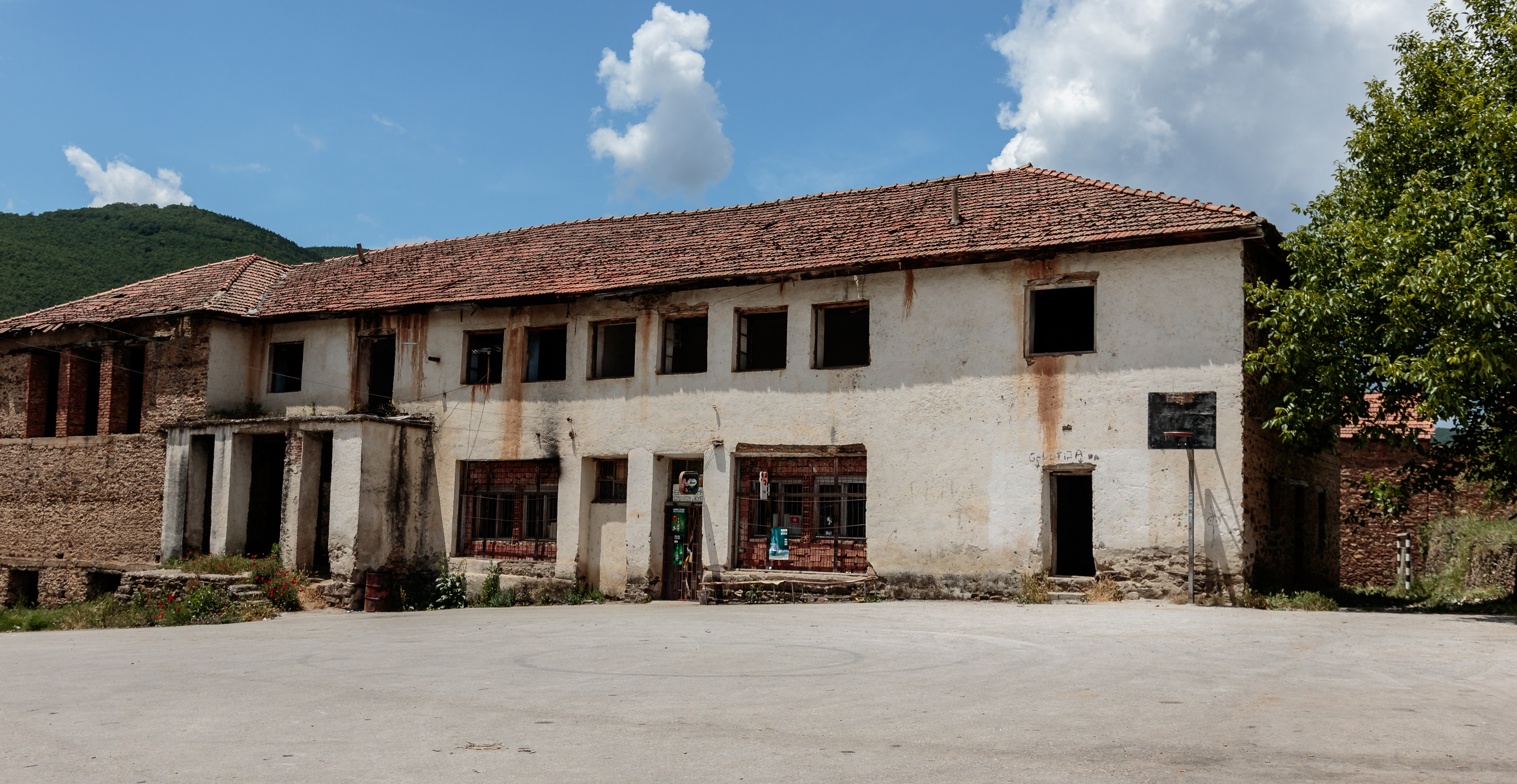 Old cultural center in the village Žurče